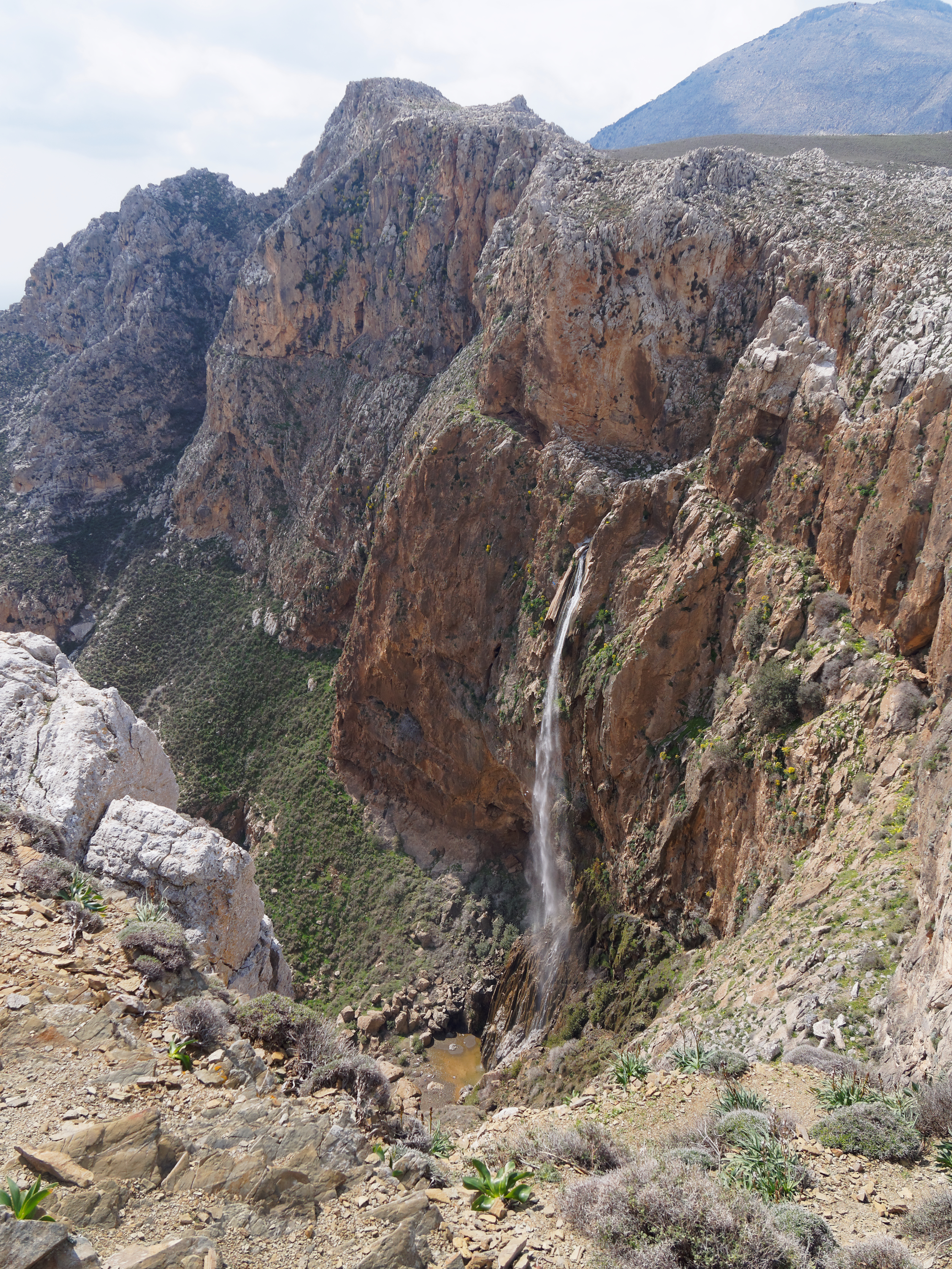 The 130 m tall Abbas waterfall, in Abbas canyon. It is one of the tallest in Greece. This is a photography of Natura 2000 protected area with ID GR4310005